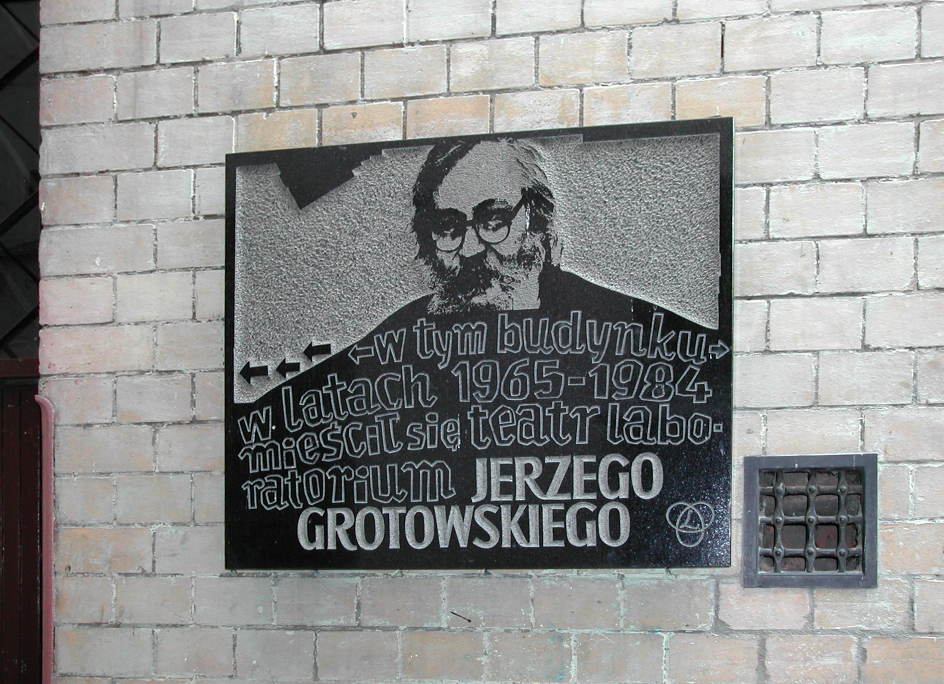 Wrocław, Poland - Grotowski plaque